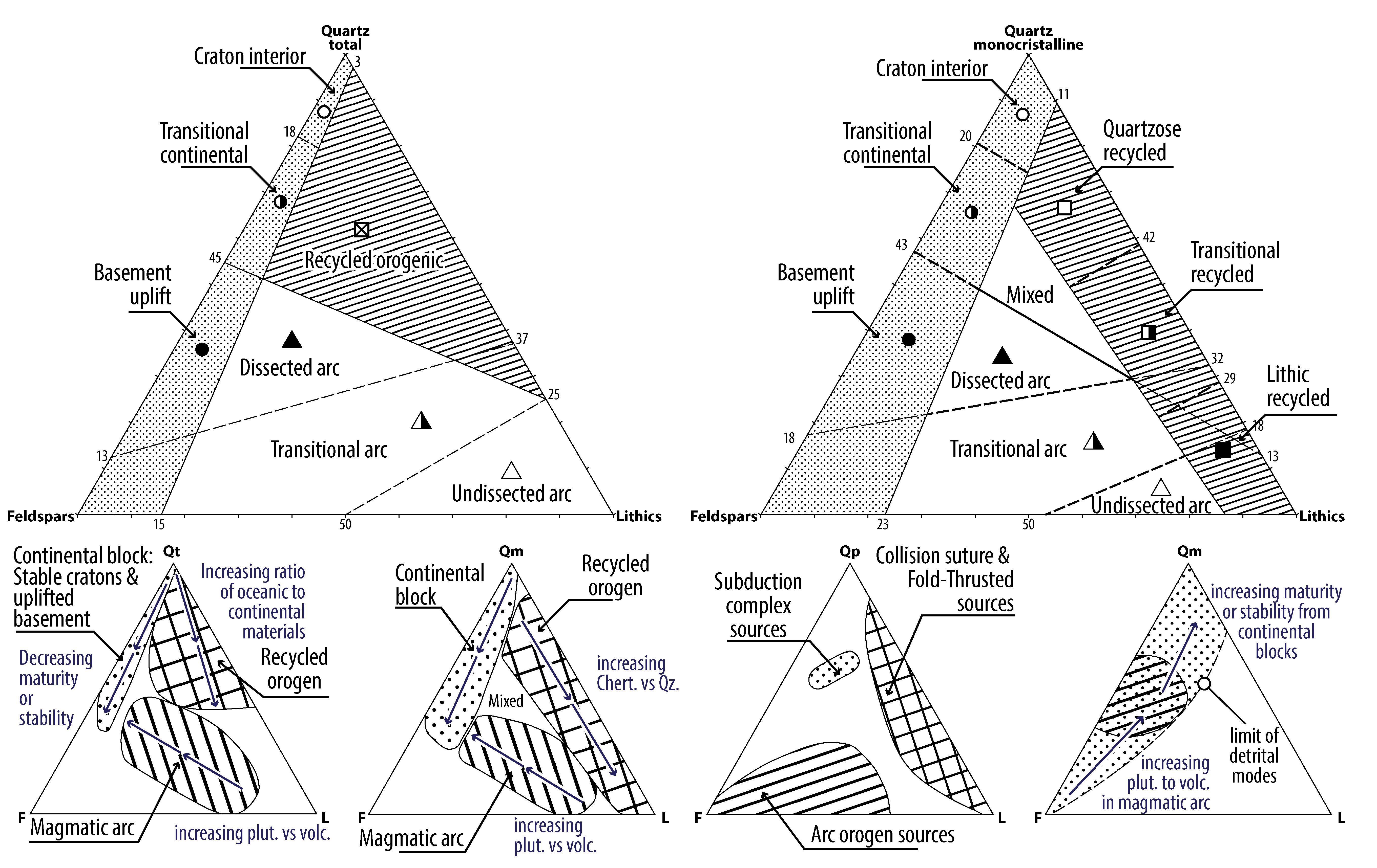 Main provenance domains depending on the different QFL ratios